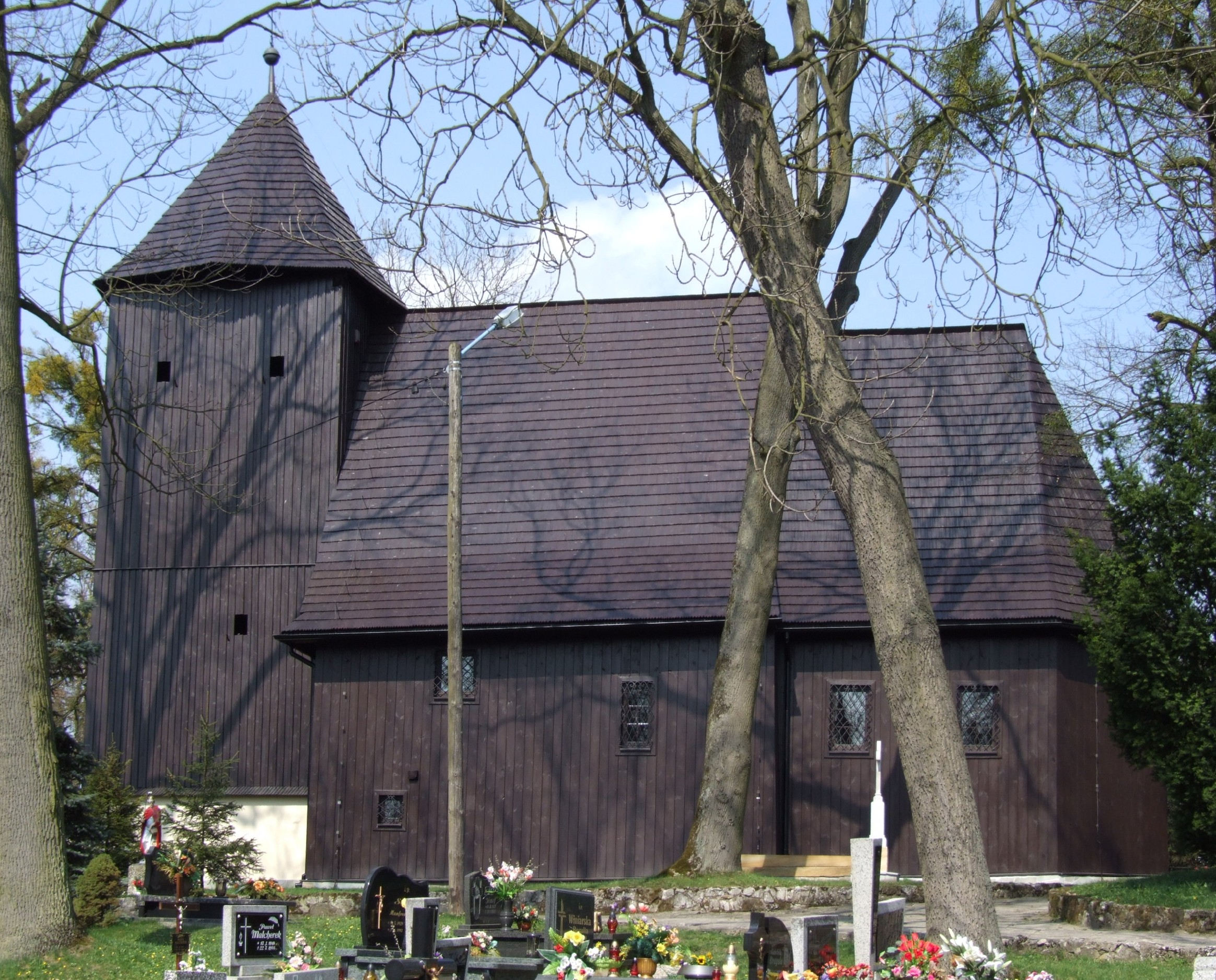 Wooden church in village Bąków (Bankau), Silesia Ślůnski: Drzewjanny kośćůł we wśi Bąków (Bankau), we uopolskim wojewůdztwje